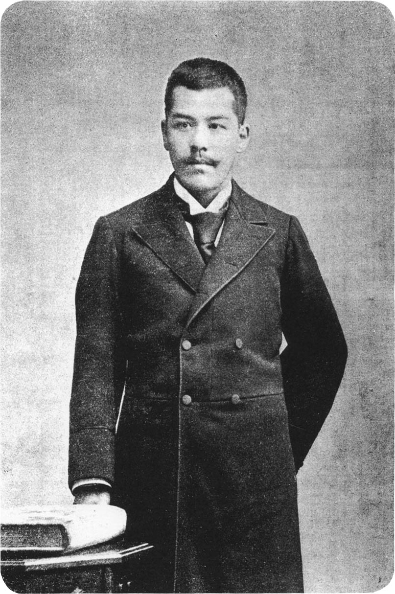 Mr. Kōjirō Matsumoto.